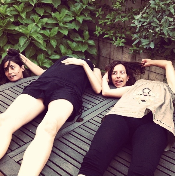 Author's description: Decapitadas en pareja decapitated with a partner Horsemanning is a 2011 version of a 1920s fad